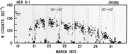 This light curve of Her X-1 shows long term and medium term variability. Each pair of vertical lines deliniate the eclipse of the compact object behind its companion star. In this case, the companion is a 2 Solar-mass star with a radius of nearly 4 times that of our Sun. This eclipse shows us the orbital period of the system, 1.7 days. The long term variability shown here is precession of a disk of accreting matter around the neutron star. This precession has a 35-day period. In addition, the neutron star in Her X-1 is also a pulsar with a 1.24 second pulse period.